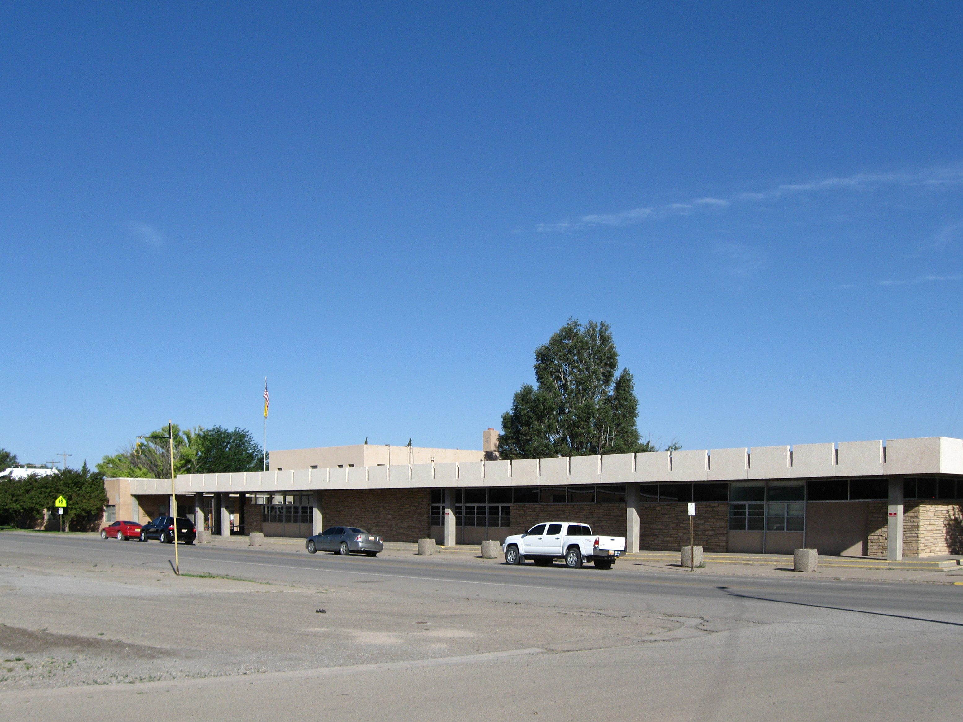 Lincoln County (New Mexico) Court House, located at 300 Central in Carrizozo, New Mexico